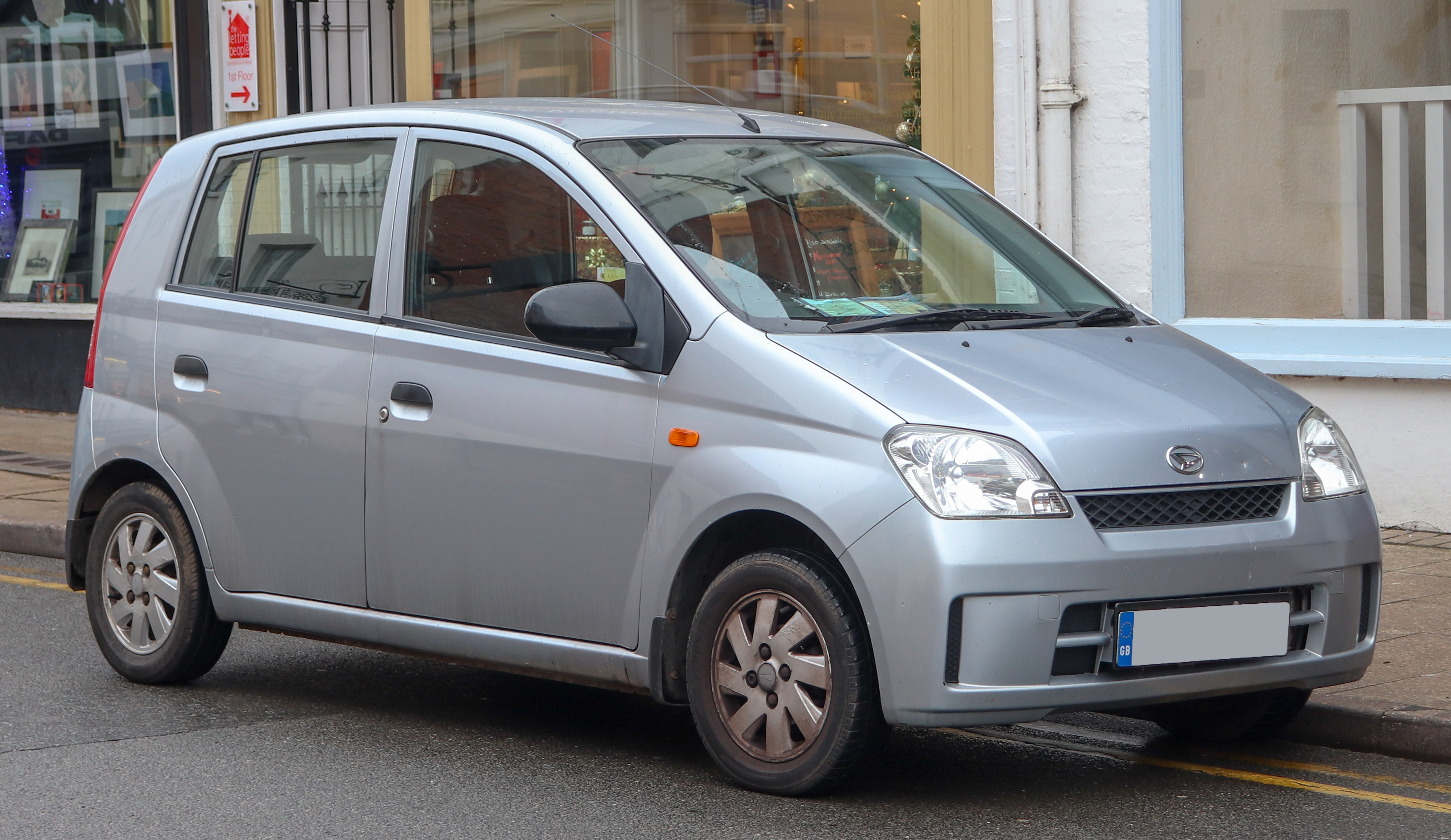 2004 Daihatsu Charade SL Automatic 1.0 Front Taken in Leamington Spa